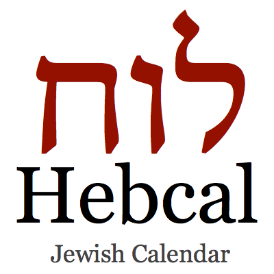 Logo for the open-source Hebrew Calendar (Hebcal) software